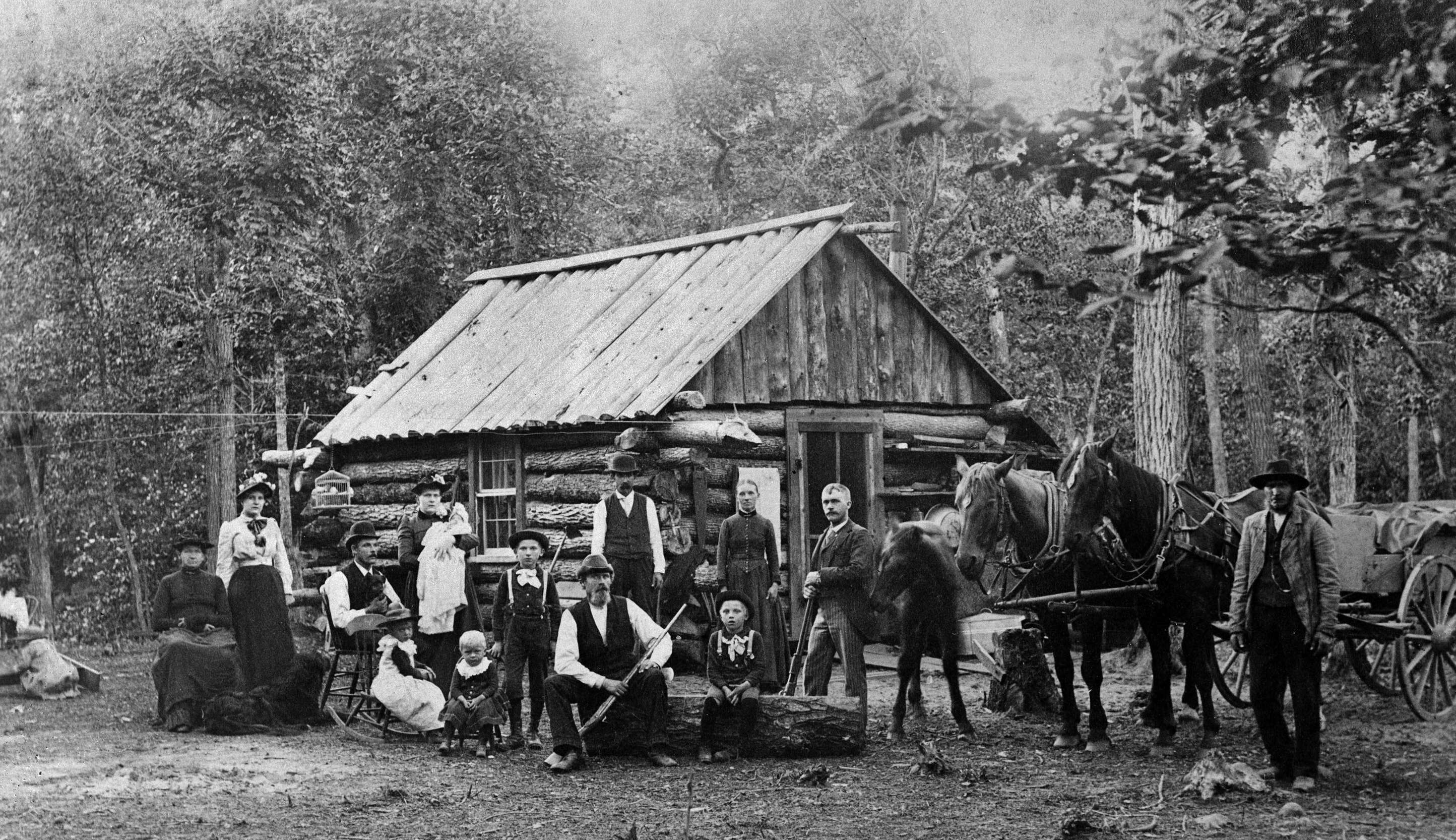 Depicted place: Minnesota (USA (US))